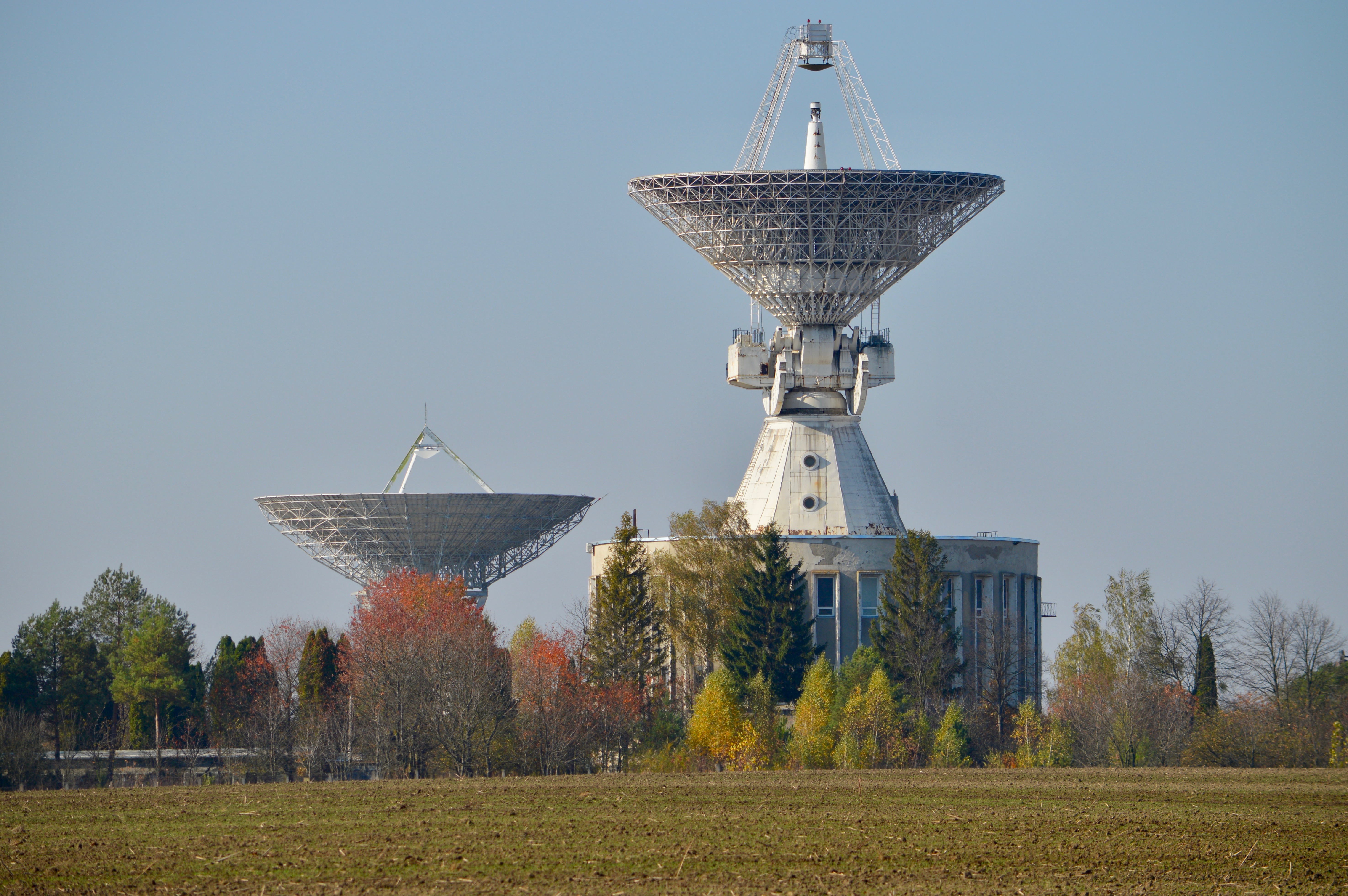 Zolochiv Space Communication Centre near Sasiv village, Lviv Region, Ukraine